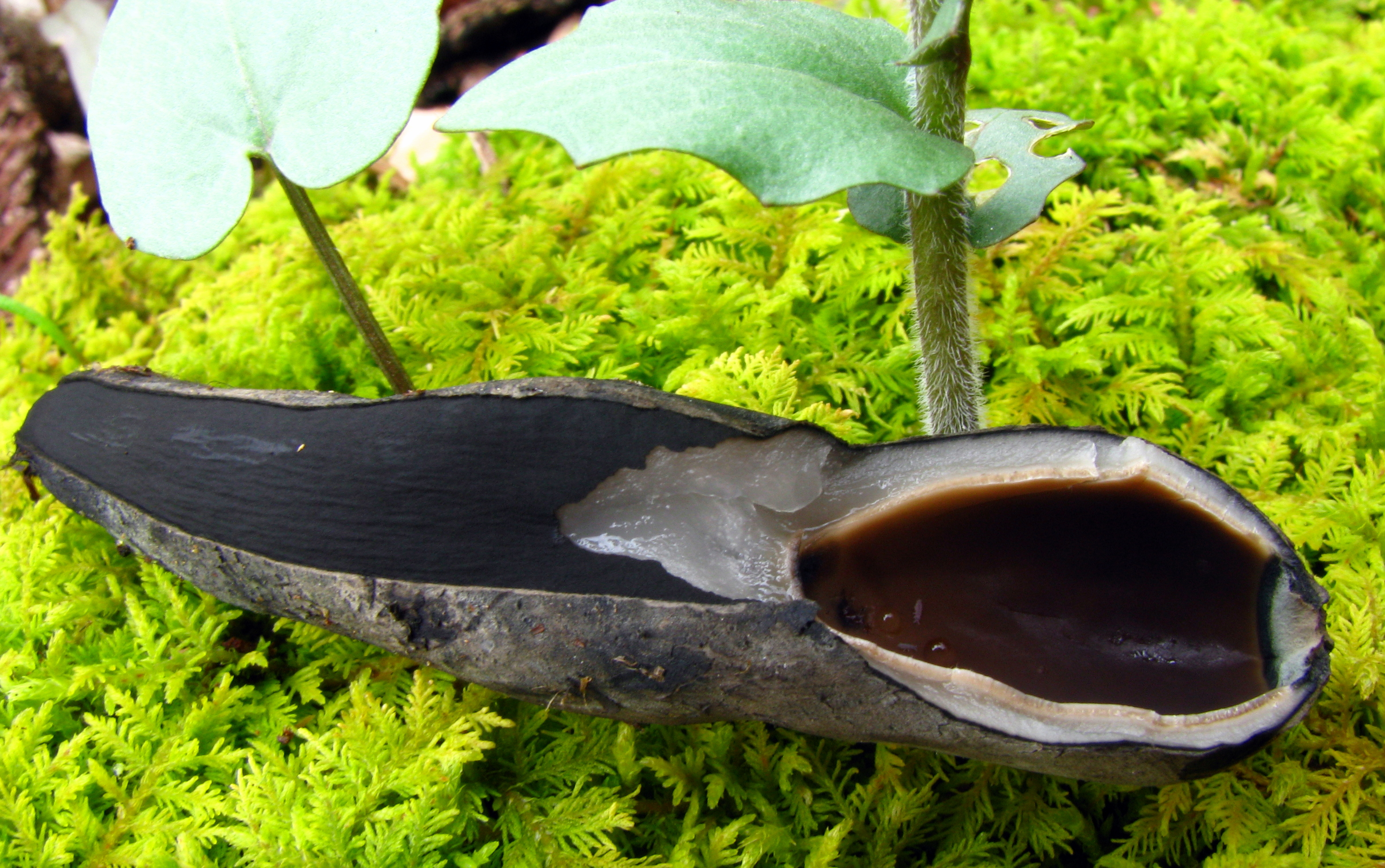 A bisected specimen of Urnula craterium (Schweinitz) Fries, commonly known as the "Devil's Cup'". Photographed in Strouds Run State Park, Athens, Ohio, USA.